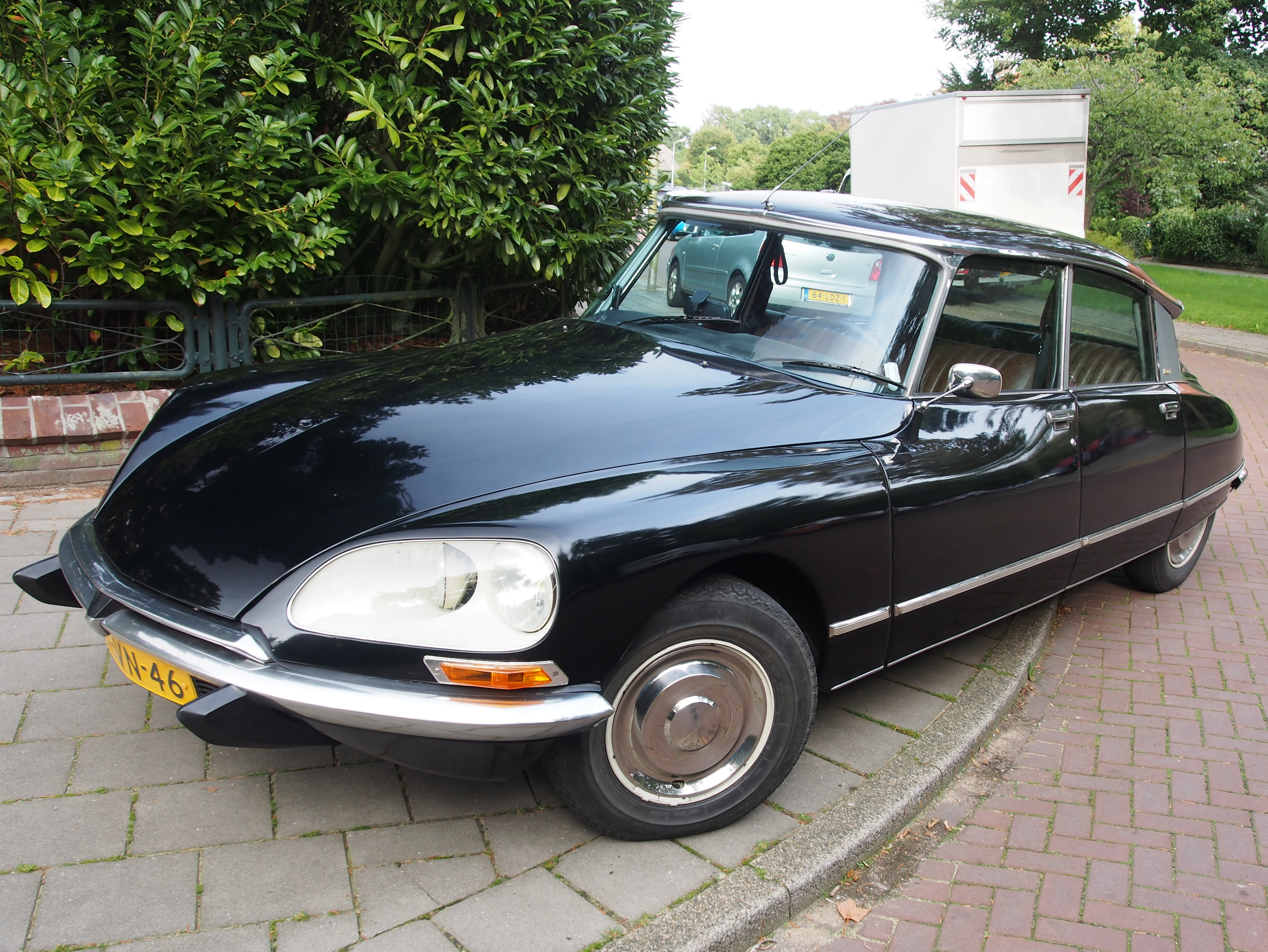 Some old cars gathering in Santpoort, The Netherlands.